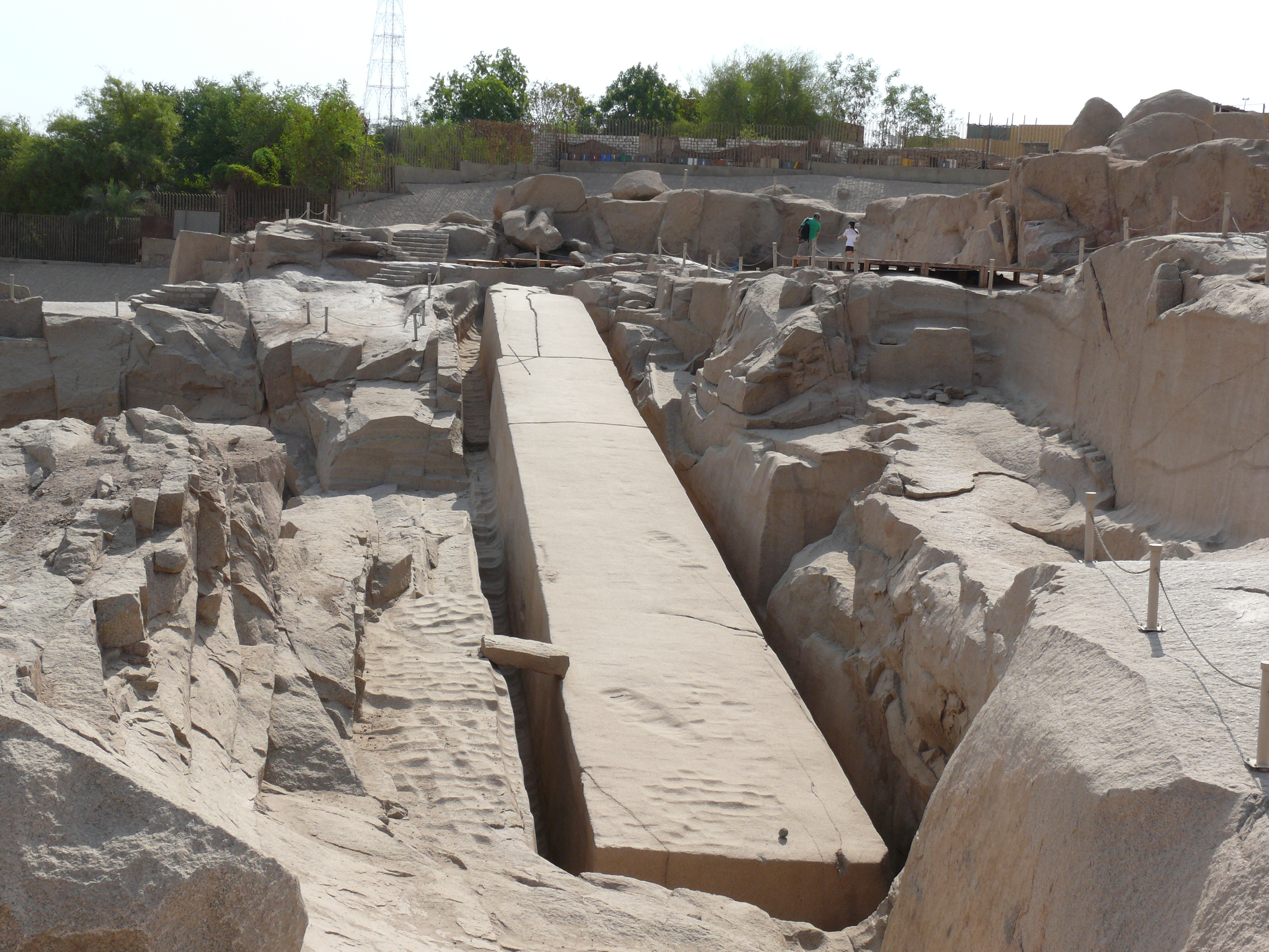 The unfinished obelisk, the largest known ancient obelisk, located in the northern region of the stone quarries of ancient Egypt in Aswan (Assuan), Egypt.